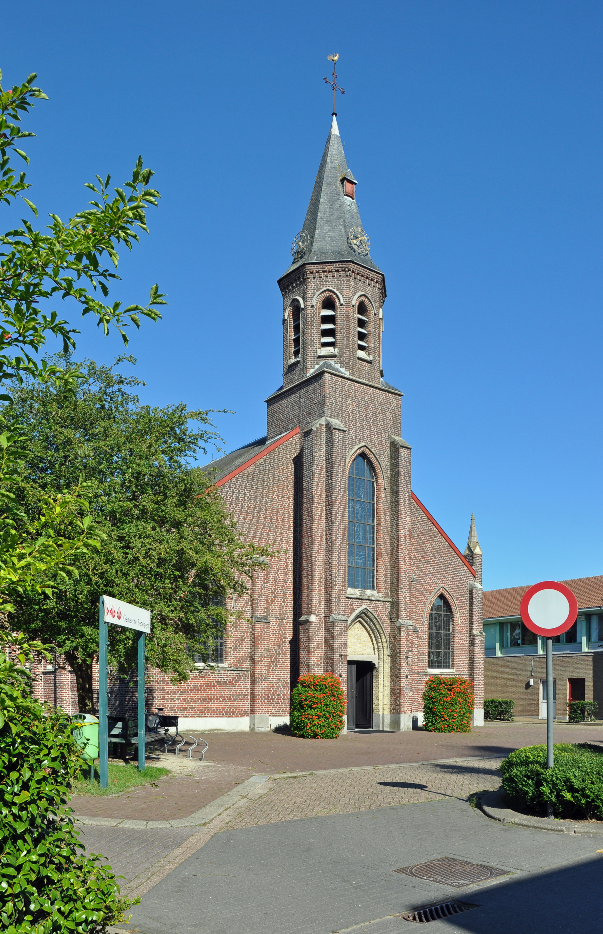 Veldegem (municipality of Zedelgem, province of West Flanders, Belgium): St Mary's church